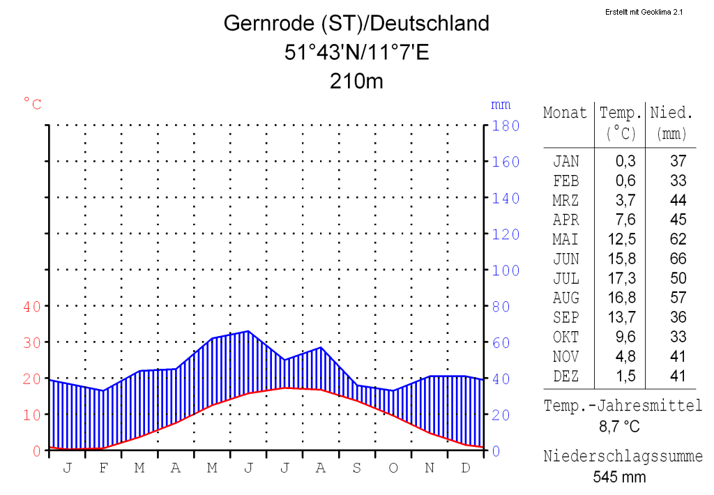 climate chart in the format by Walter and Lieth, metric, °Celsisus and millimeters, made with Geoklima 2.1